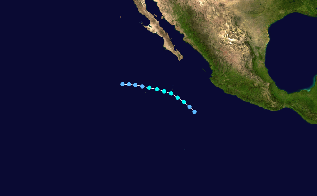 Tropical Storm Carlos (1997) track. Uses the color scheme from the Saffir-Simpson Hurricane Scale.